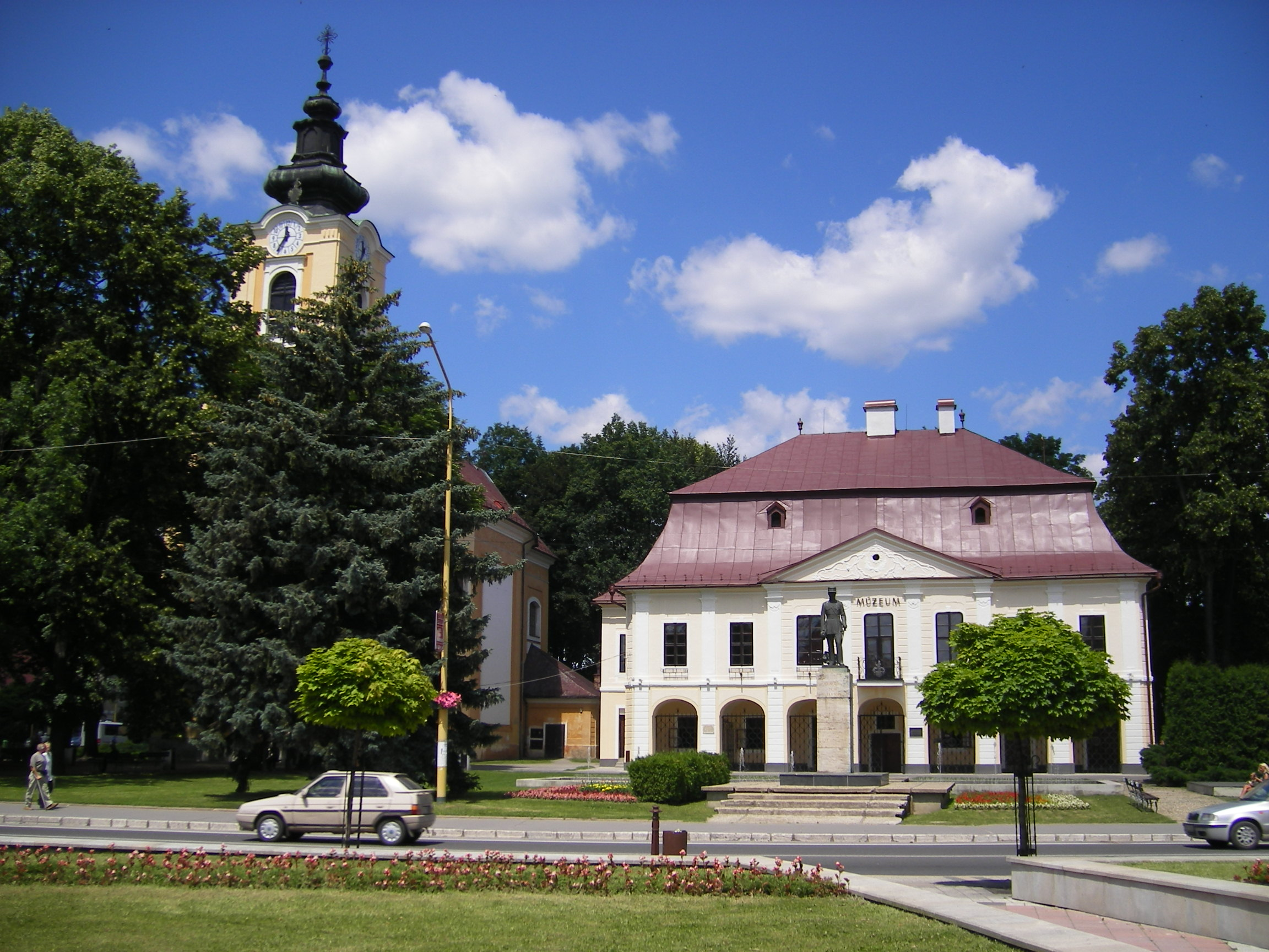 Brezno, District Museum